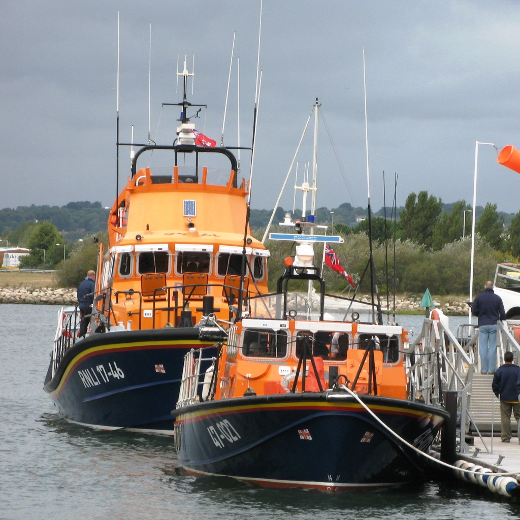 Two lifeboats moored at the Royal National Lifeboat Institution's moorings in Poole, Dorset, England. In front is the Appledore Lifeboat, Tyne Class 47-027 George Gibson. Behind is Severn Class 17-46 Margaret Joan and Fred Nye, part of the RNLI's relief fleet.